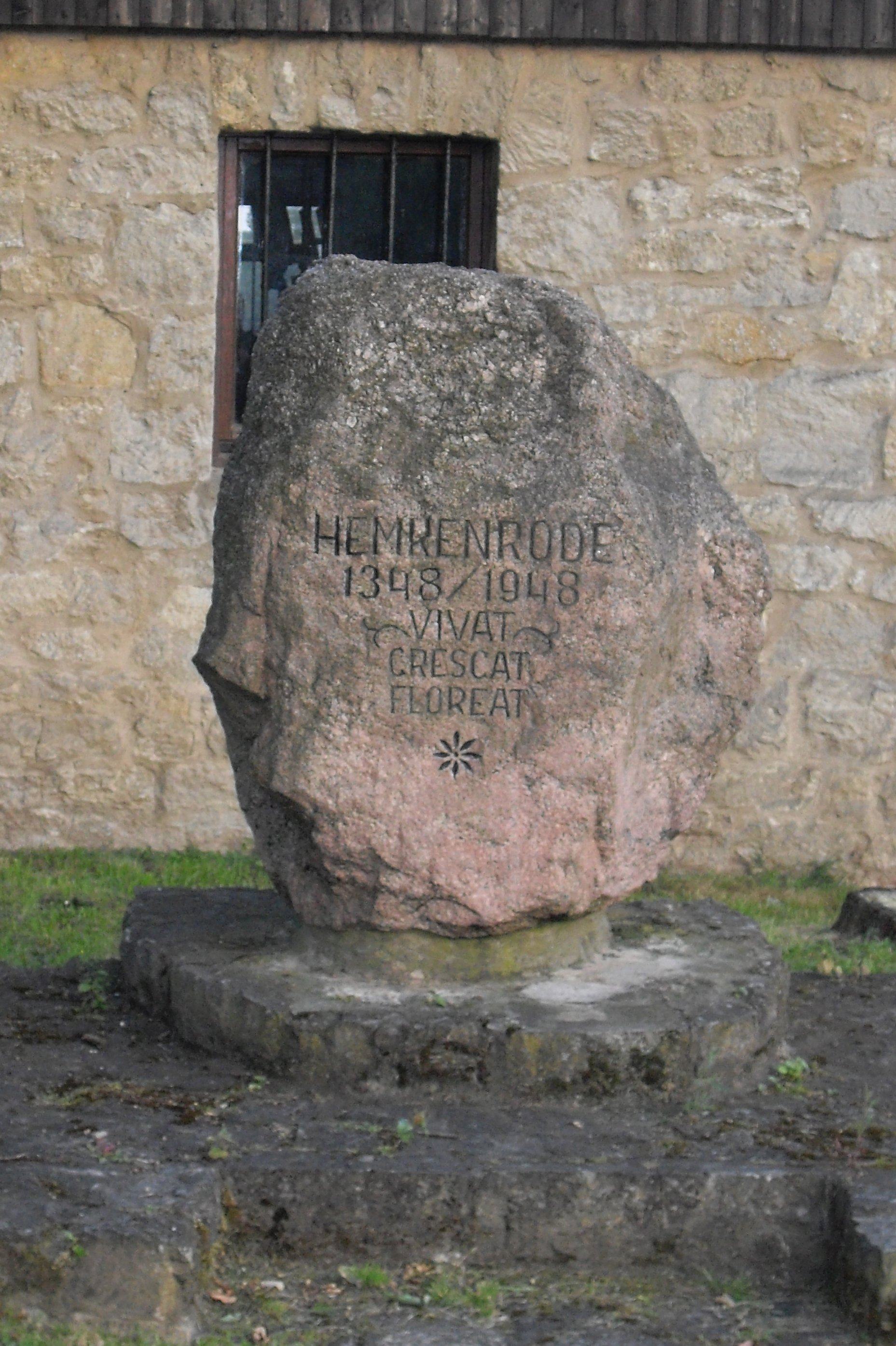 Monument for the 700th anniverary of Hemkenrode village in 1948